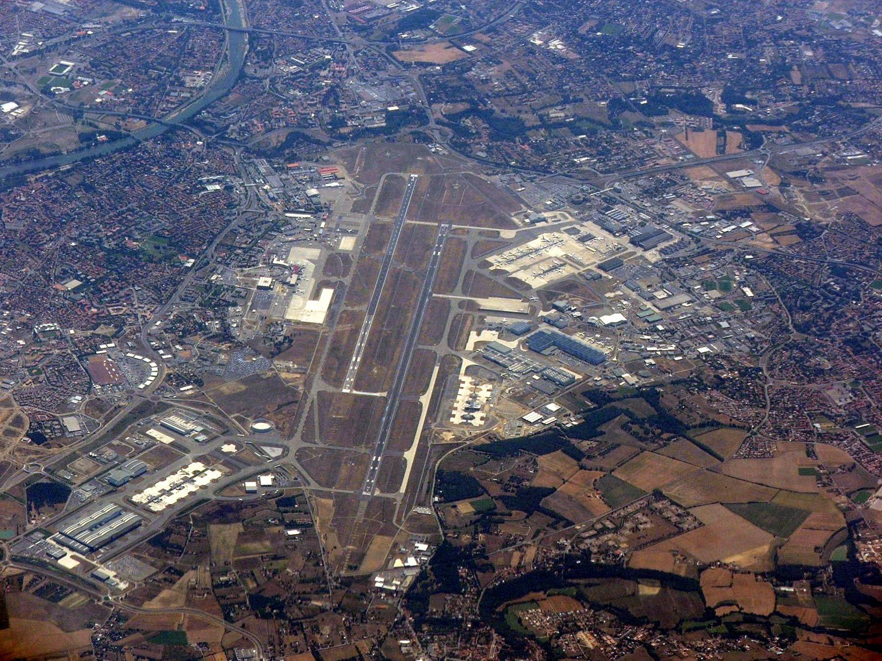 Toulouse Airport, France - aerial view when flying from Prague to Madrid